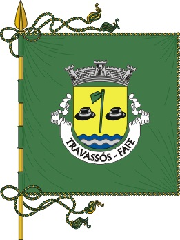 bandeira de travassós